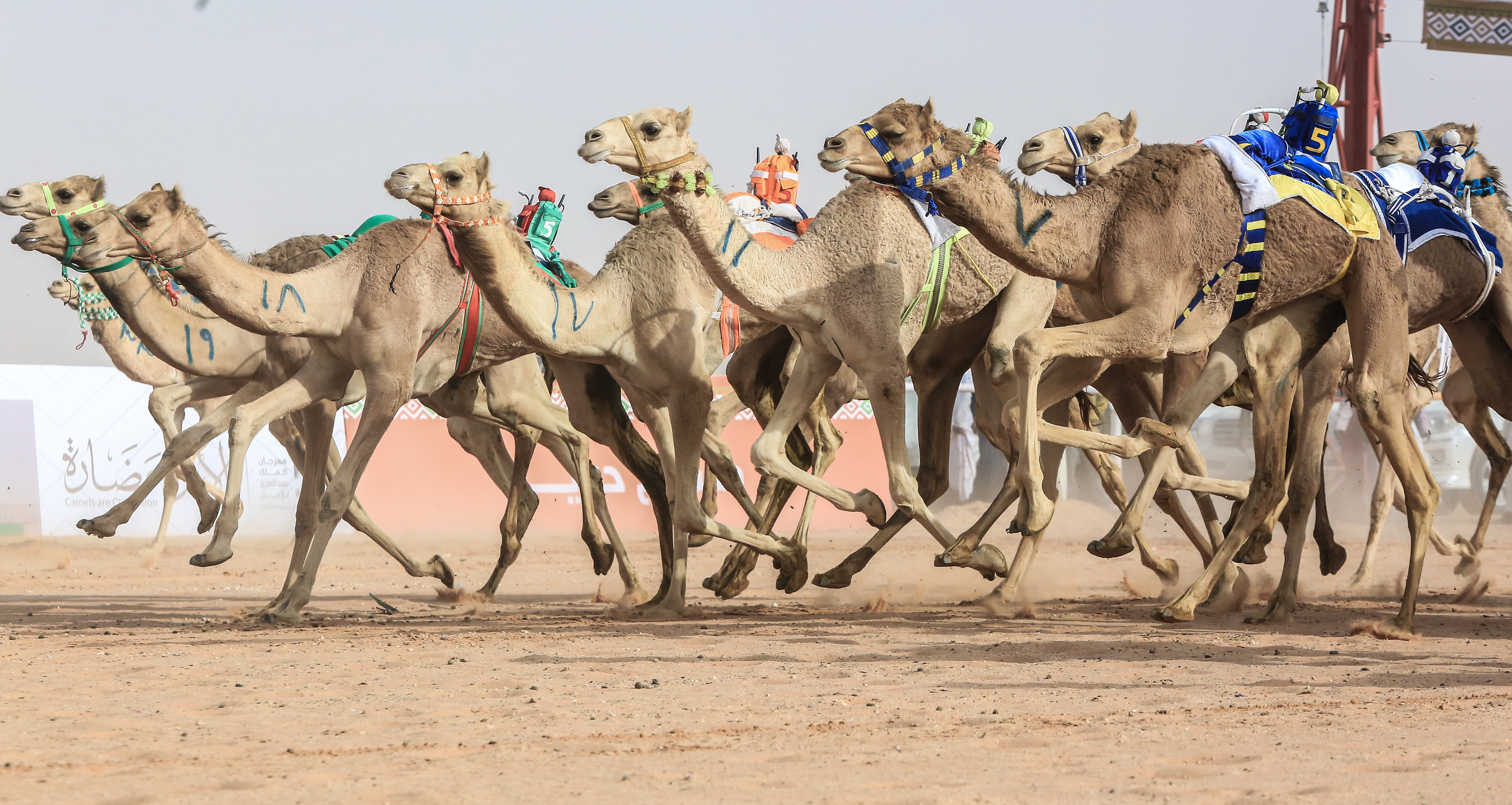 سباق الهجن بمهرجان الملك عبدالعزيز للإبل